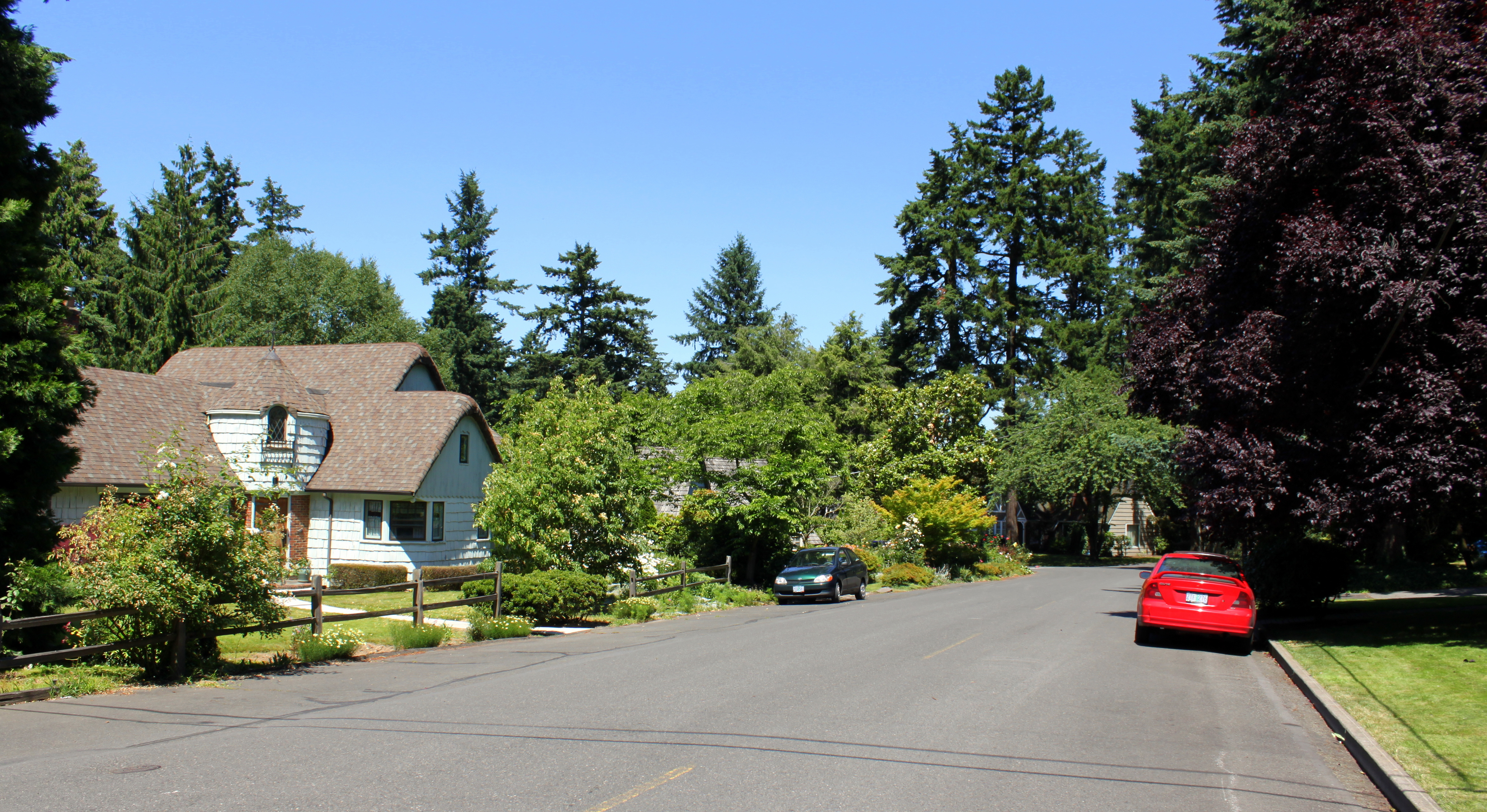 A street in Maywood Park, Oregon.